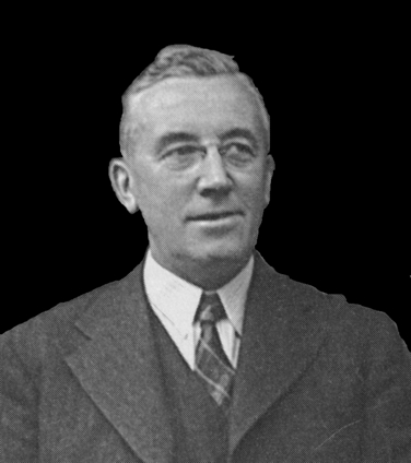 This is a derivative of the National CCF Party delegation attending the conference of Commonwealth Labour Parties in London, England September 1944. The Wikimedia Commons file that it is based on is Claire Gillis, David Lewis, M.J.Coldwell c007253.jpg.